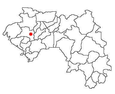 Télimélé, Guinea Location Map; created with the GIMP. Made by User:Acntx.